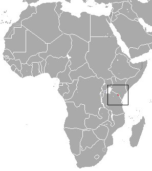 Peters's Musk Shrew (Crocidura gracilipes) range